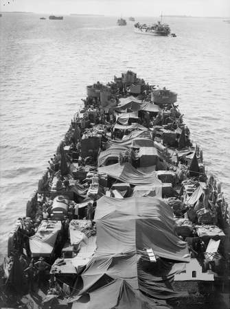 Morotai-Tarakan, off NE coast, Borneo. The view from the mast of Landing Ship, Tank, LST-637 showing the deck crowded with vehicles and temporary structures in the foreground, and LST in the background, as the Tarakan assault fleet sets out on the four-day trip from the Somoe Somoe LST anchorage at Morotai.